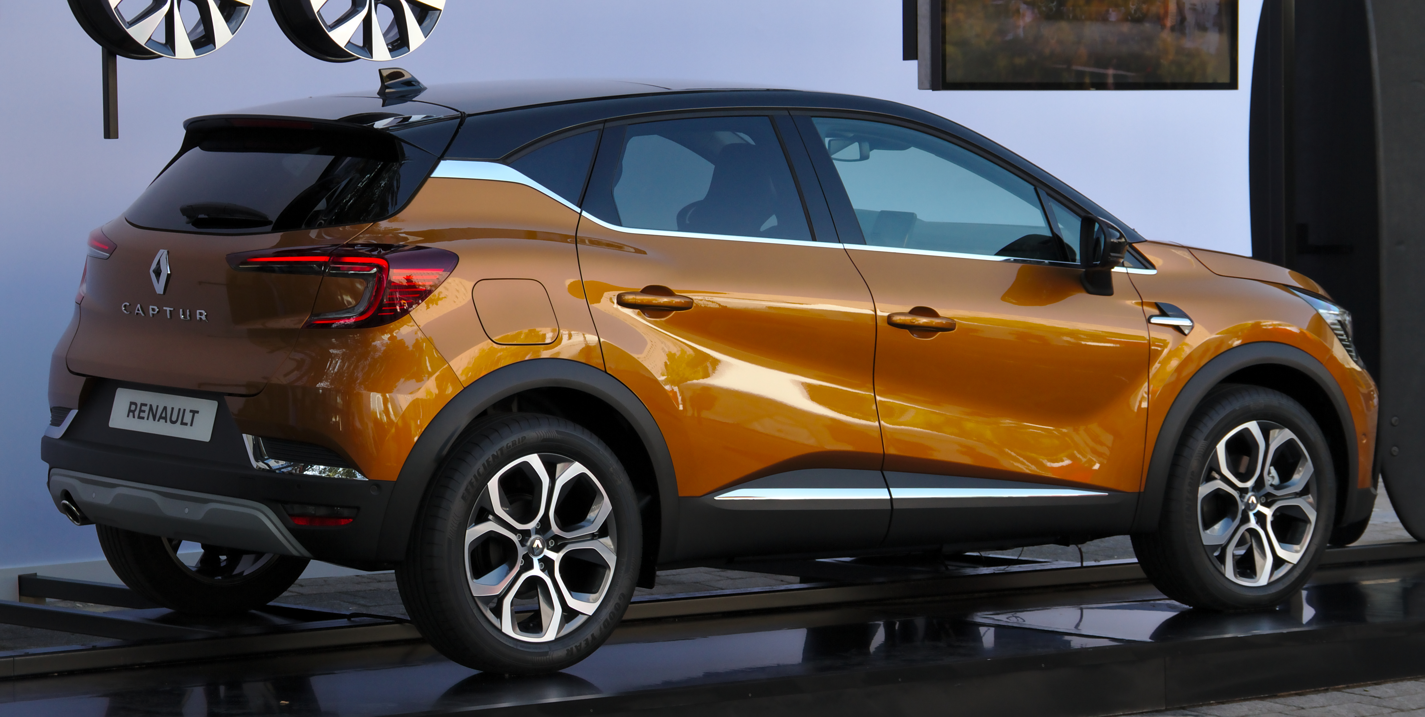 Renault_Captur_II at IAA 2019